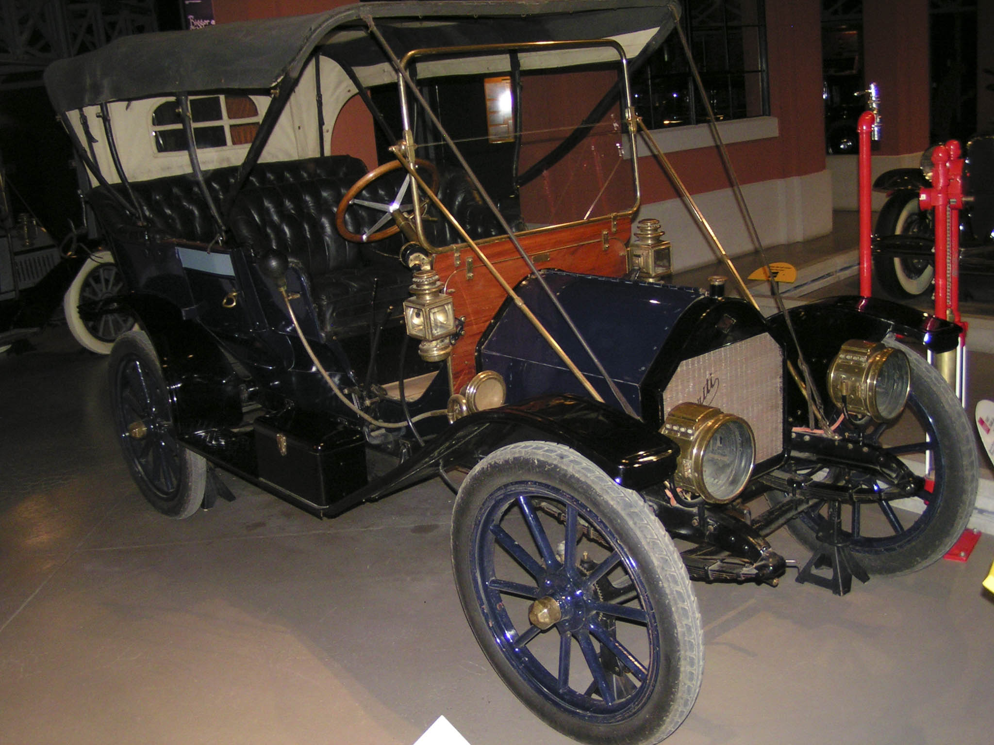 1910 Everitt Four-30 Touring Car 3914cc four cylinder engine.